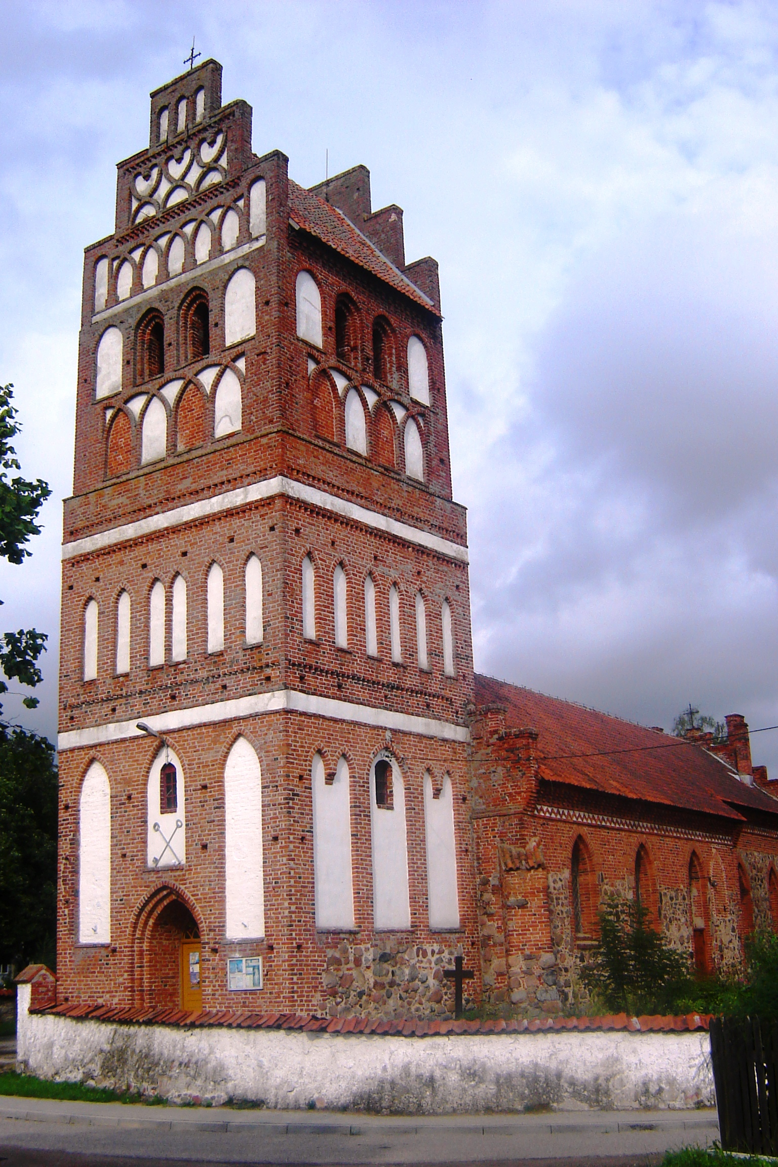 Church of the Assumption in Galiny, Poland